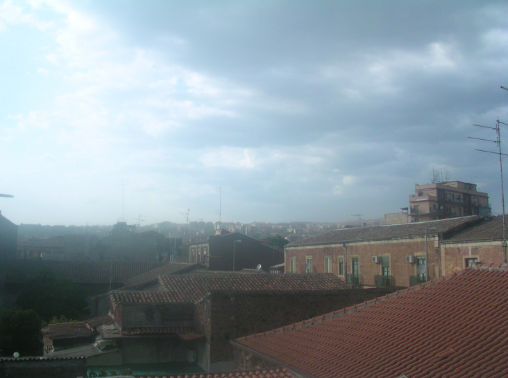 Shot from home. North-Western View of Picanello, a neighbourhood in Catania.